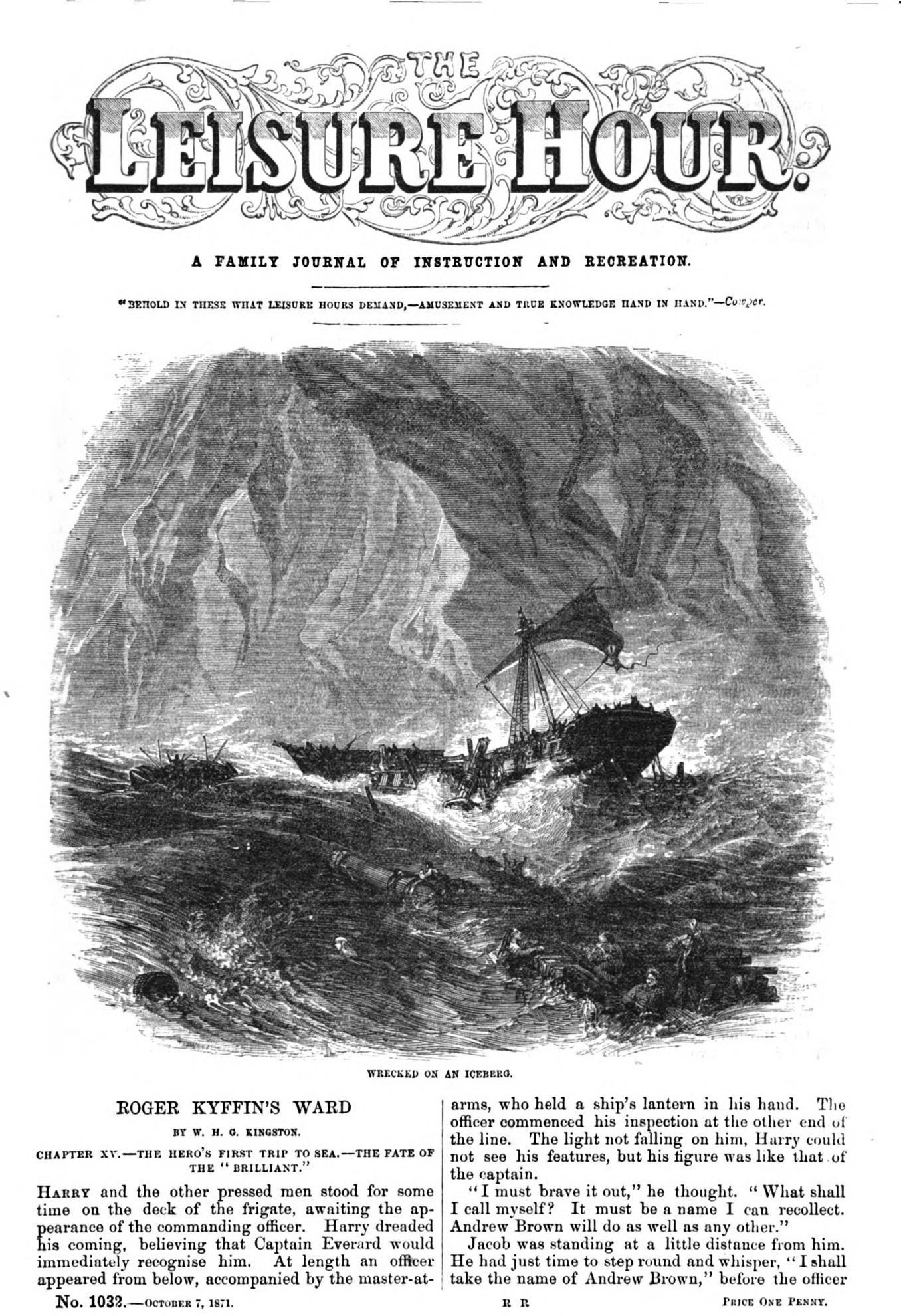 The front page of issue 1032 of the British popular magazine The Leisure Hour: a Family Journal of Instruction and Recreation, dated 7 October 1871. Scanned by Google from an original at the University of Michigan. Image includes the periodical's header, the beginnings of a story "Roger Kyffin's Ward", and an illustration for the story, of a ship being wrecked on an iceberg. This scan has been converted to grayscale in GIMP to deal with some colours created by aliasing.